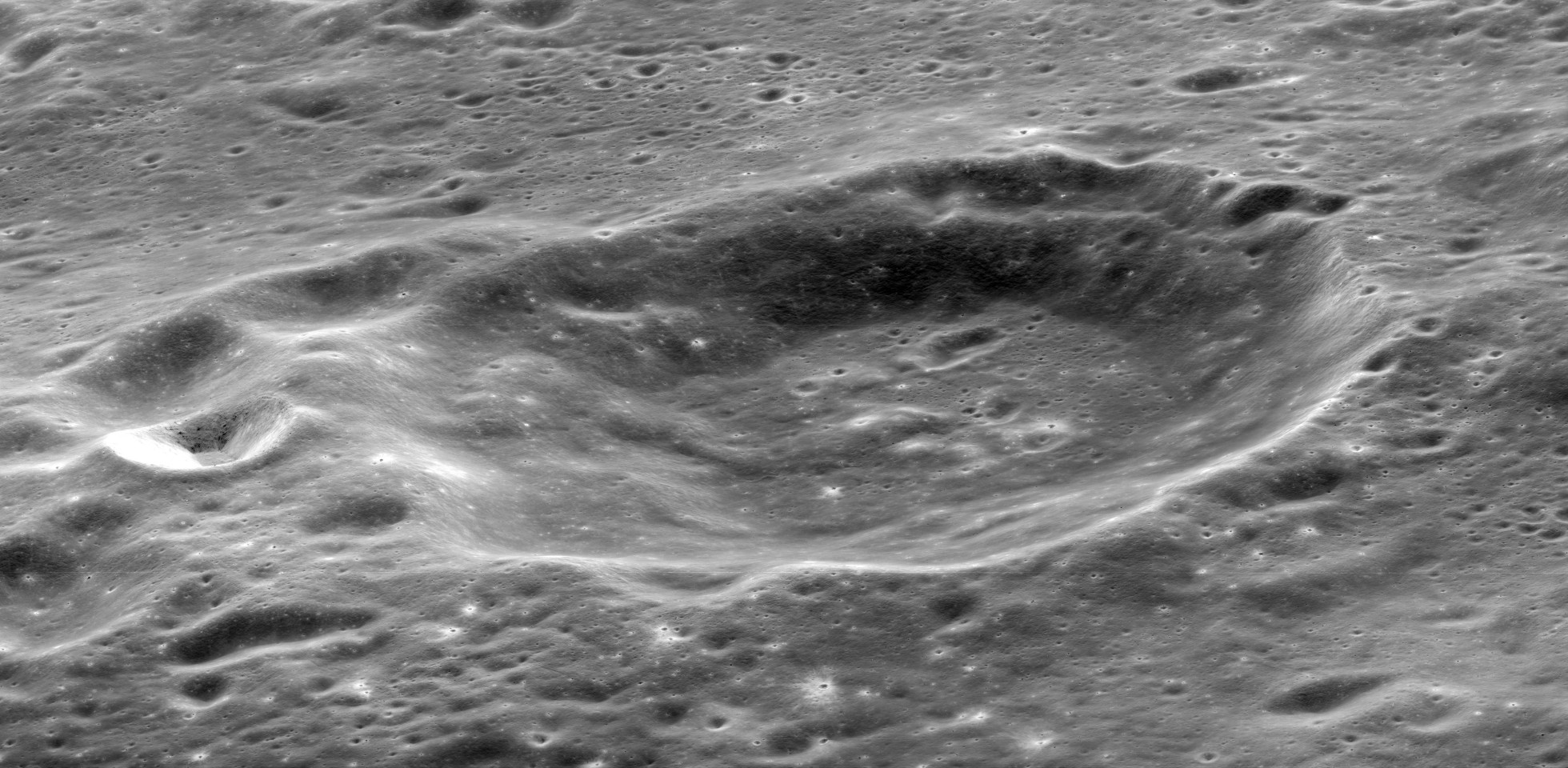 Oblique view of Ganskiy crater, facing west, on the moon. Taken by Apollo 17 panoramic camera.